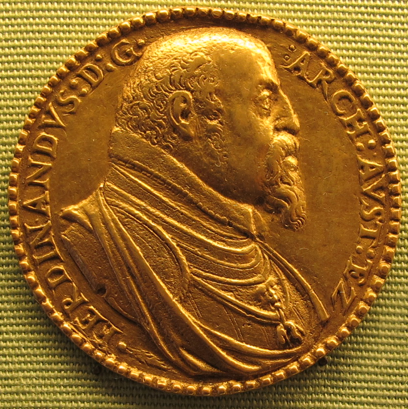 Medal of Ferdinand II, Archduke of Austria (1529-1595)